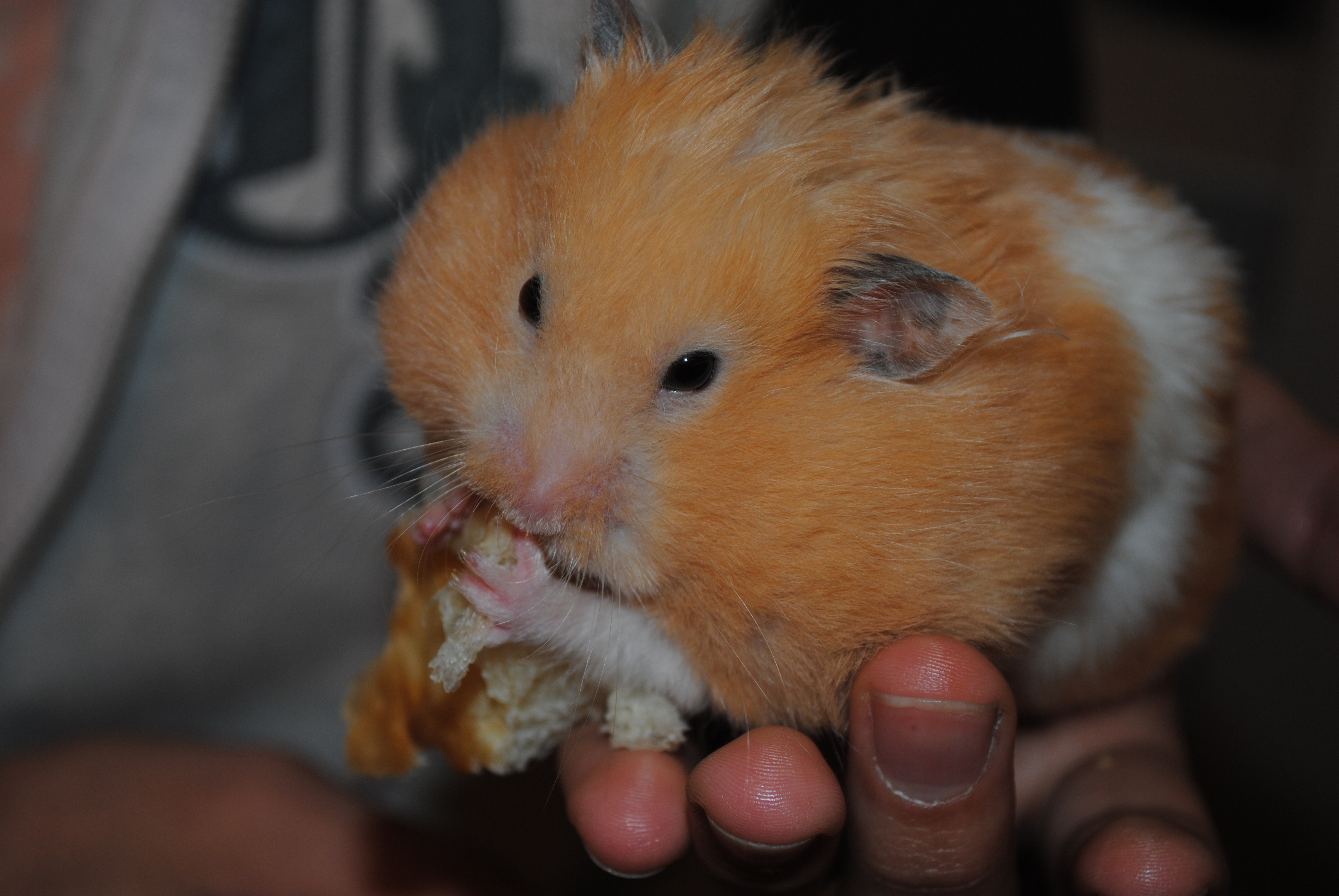 Food filled cheeks